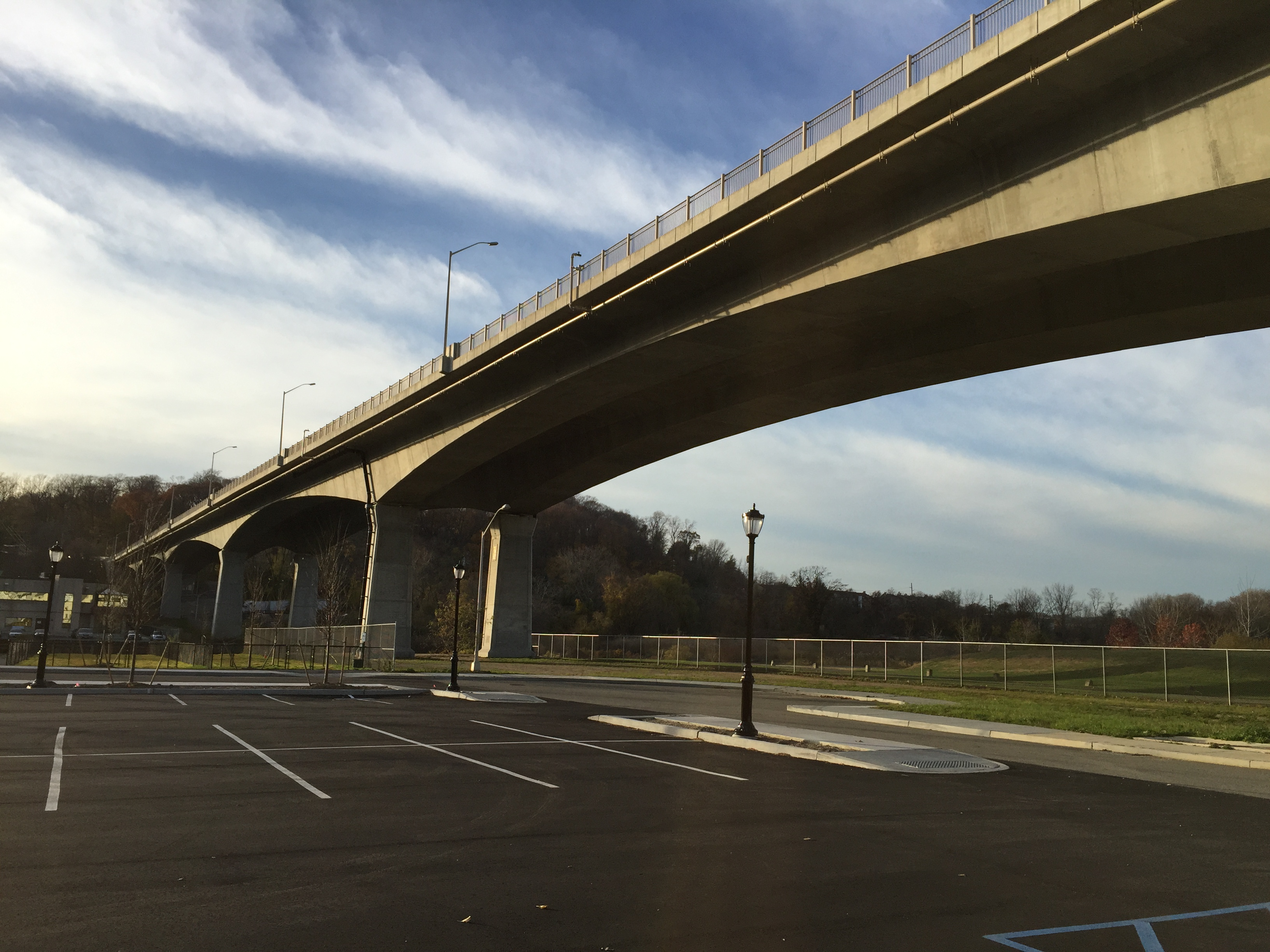 West half of the new Roslyn Viaduct over Hempstead Harbor in Roslyn, New York in 2015